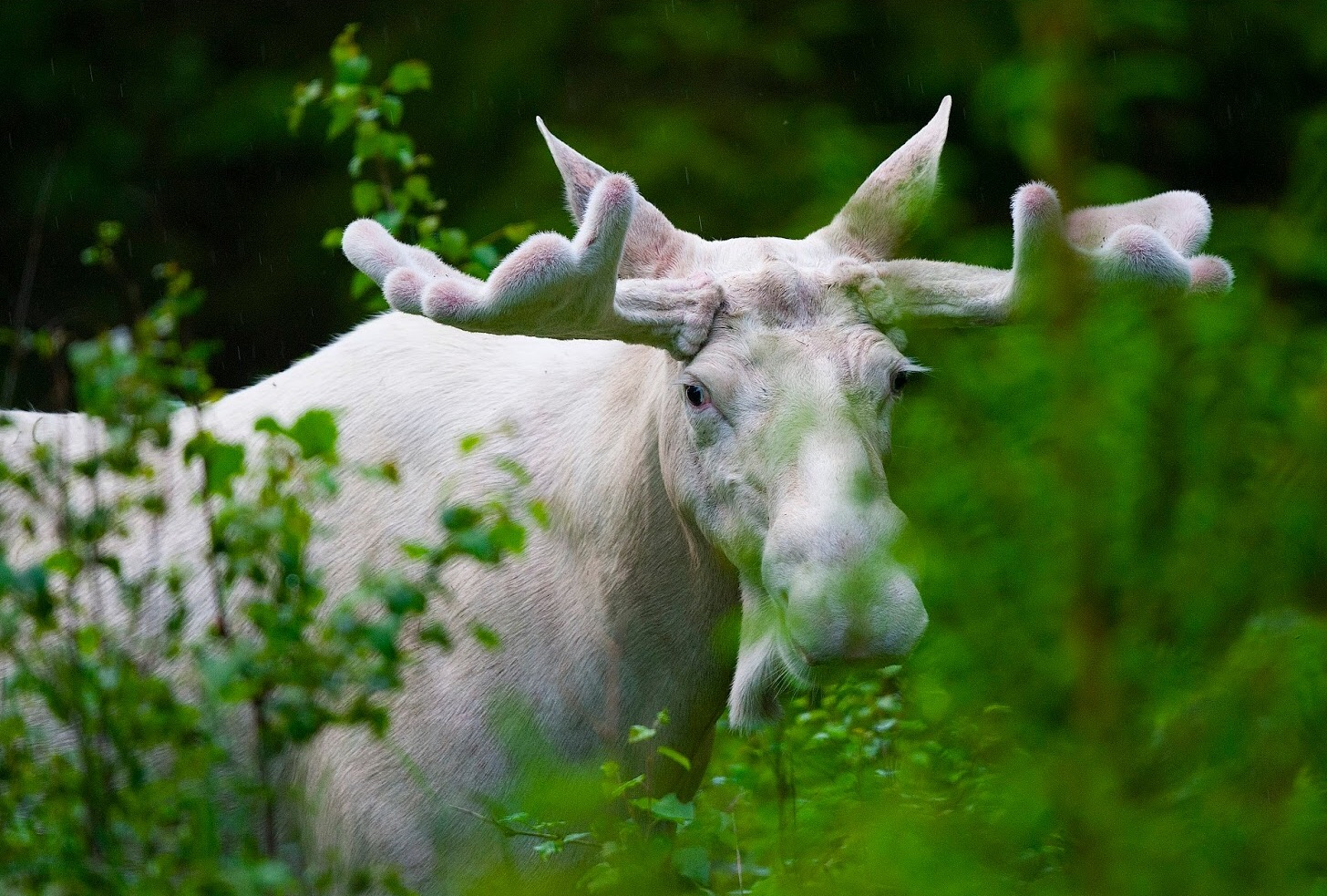 White moose